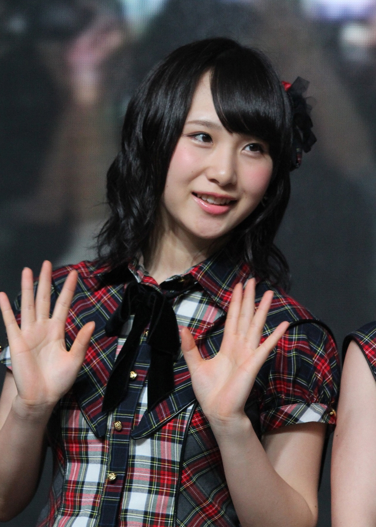 130413 AKB48 at Tokyo Auto Salon Singapore Meet & Greet 2 and Performance